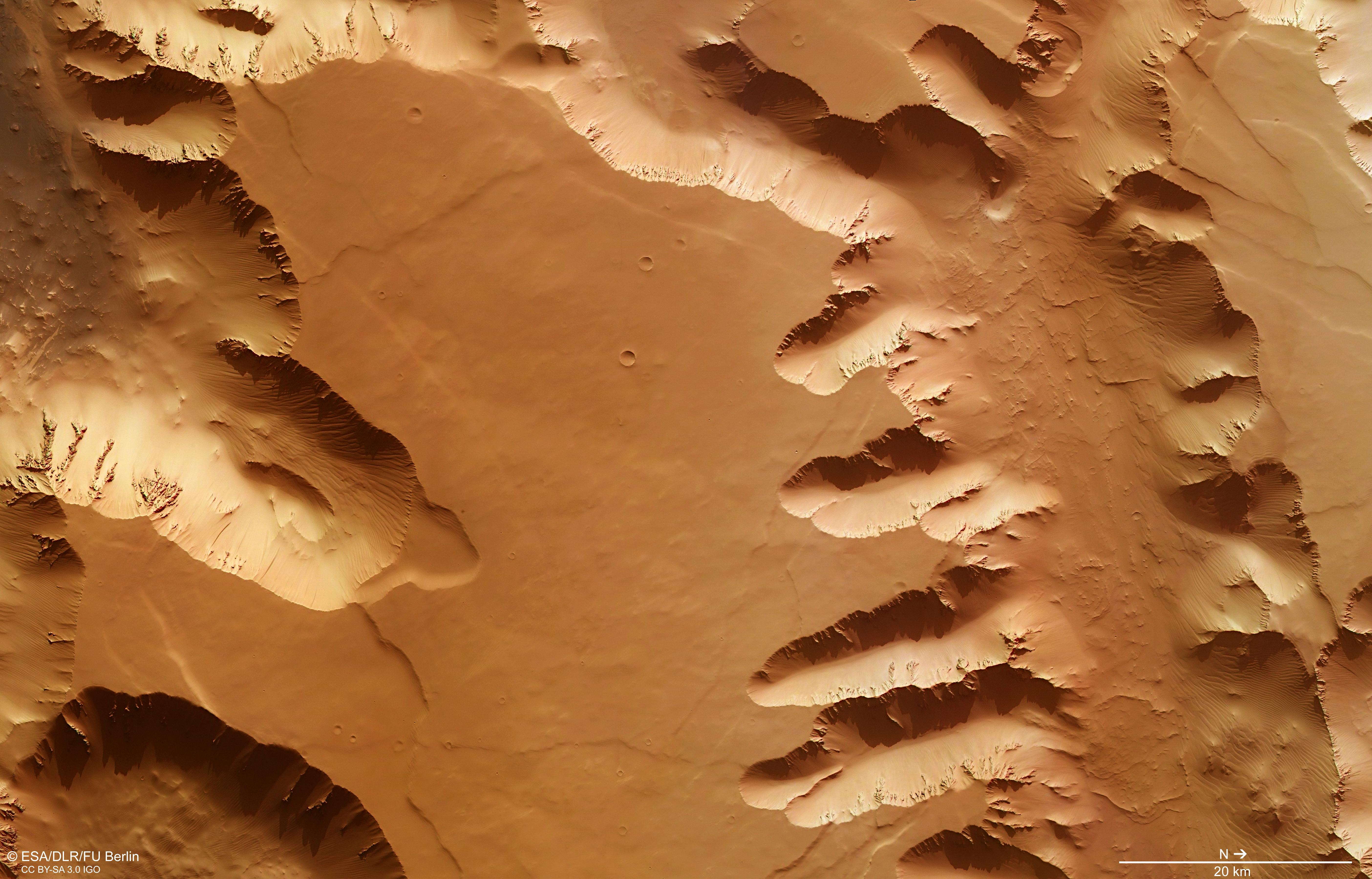 Noctis Labyrinthus on Mars imaged by the HRSC instrument aboard Mars Express.